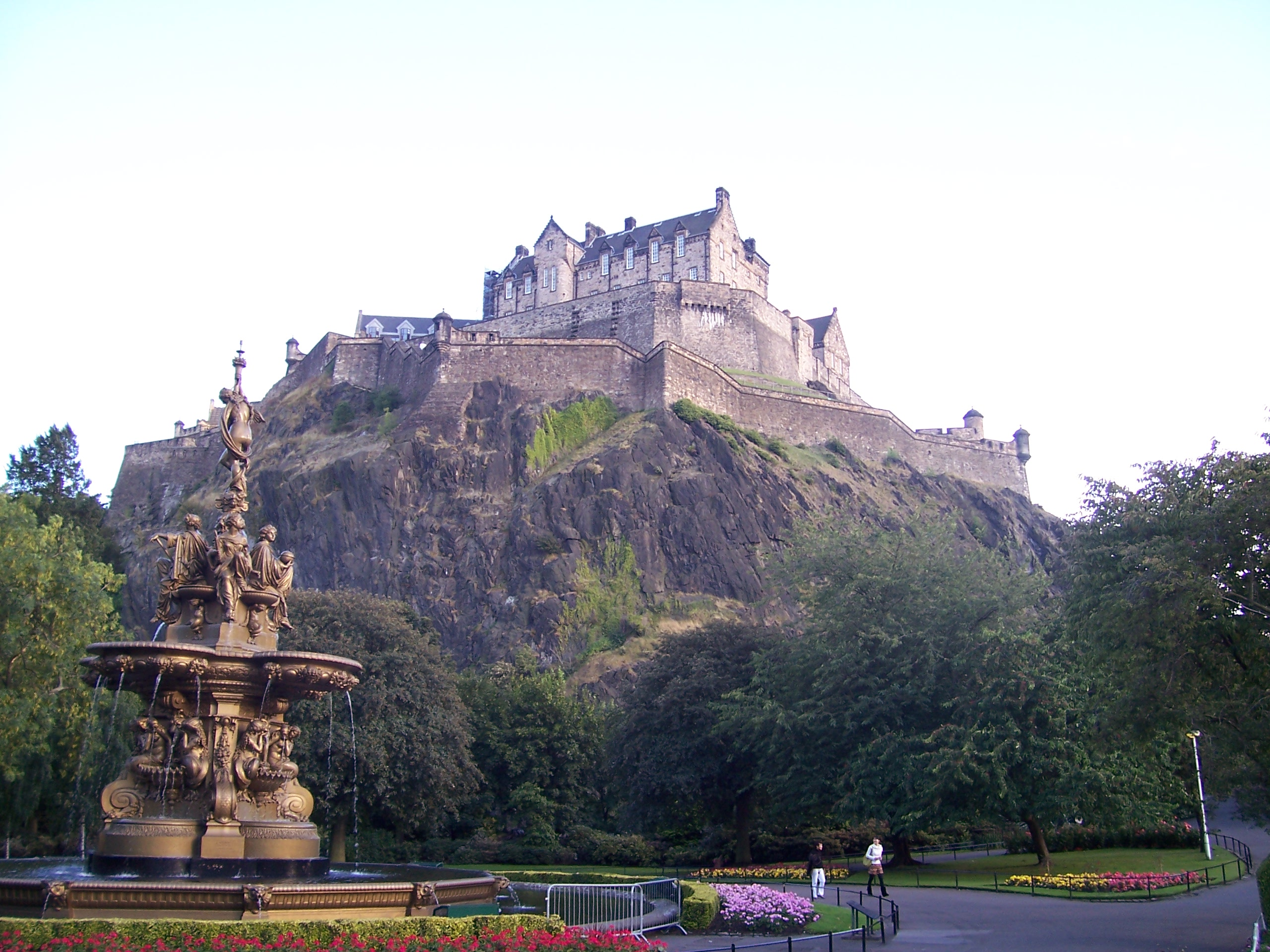 The Edinburgh Castle From Princes Street Garden